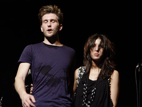 Wildbirds & Peacedrums. Andreas Werliin & Mariam Wallentin in Aarhus, Demark (2009)